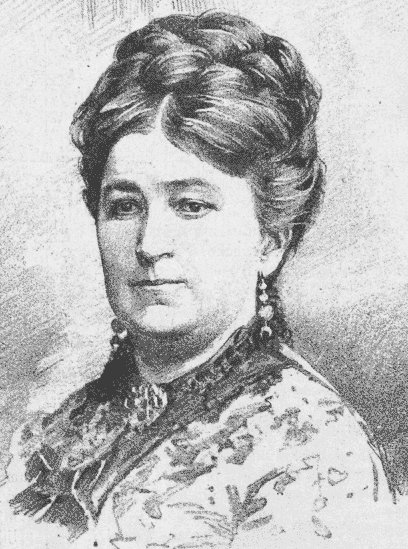 Portrait of Eleonora Pešková, Czech actress.